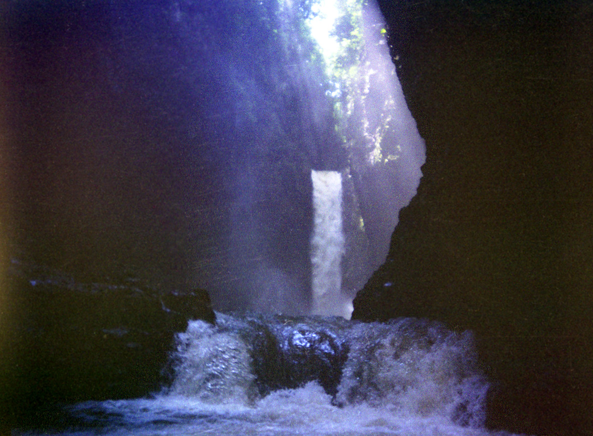 Filobobos waterfall caves, near Xalapa/Jalapa, Mexico